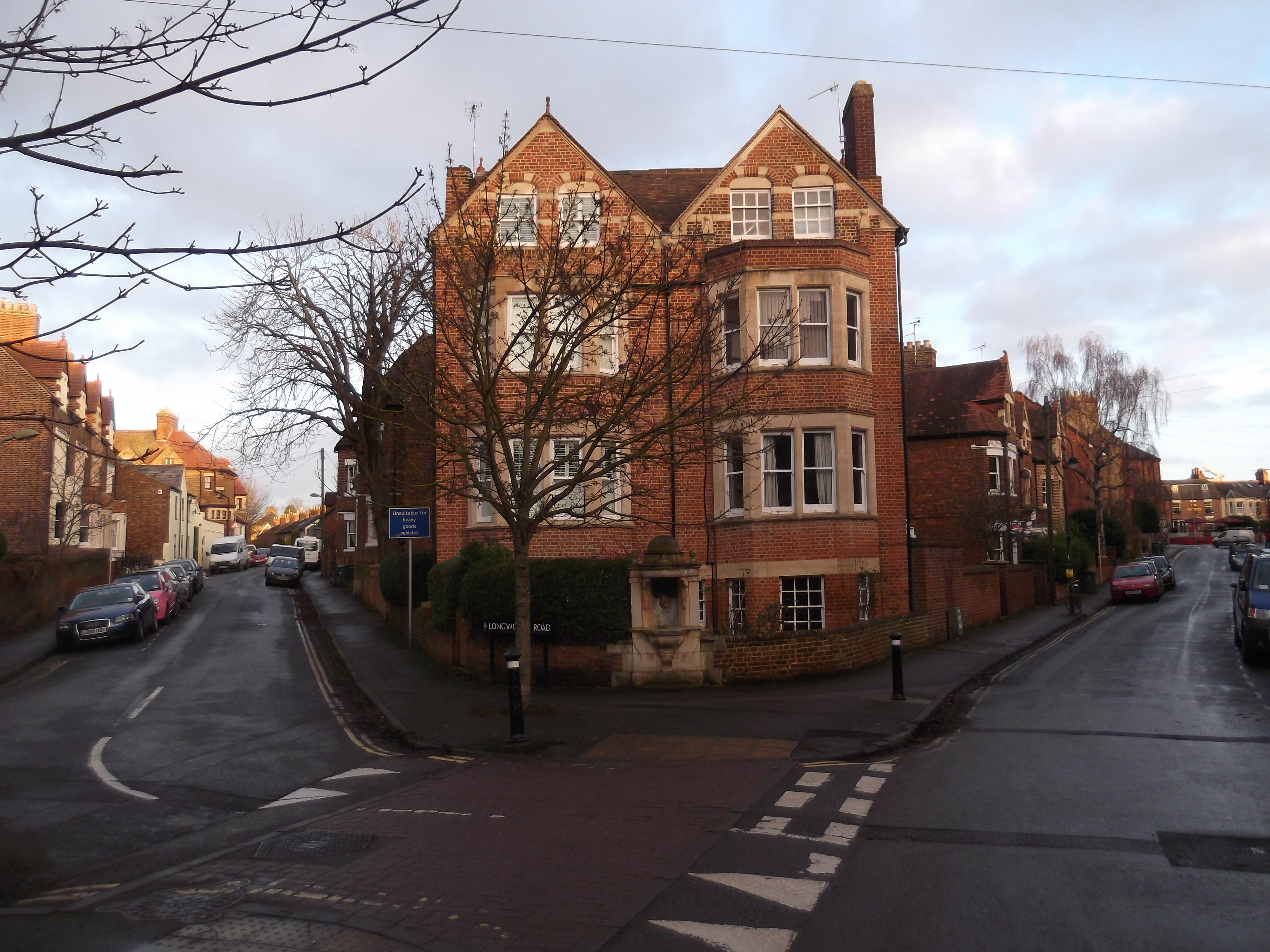 View east along Longworth Road (left) and Walton Well Road (right) in Oxford, England. The Walton Well water fountain (now disused) in is front of the house in the centre of the photograph.